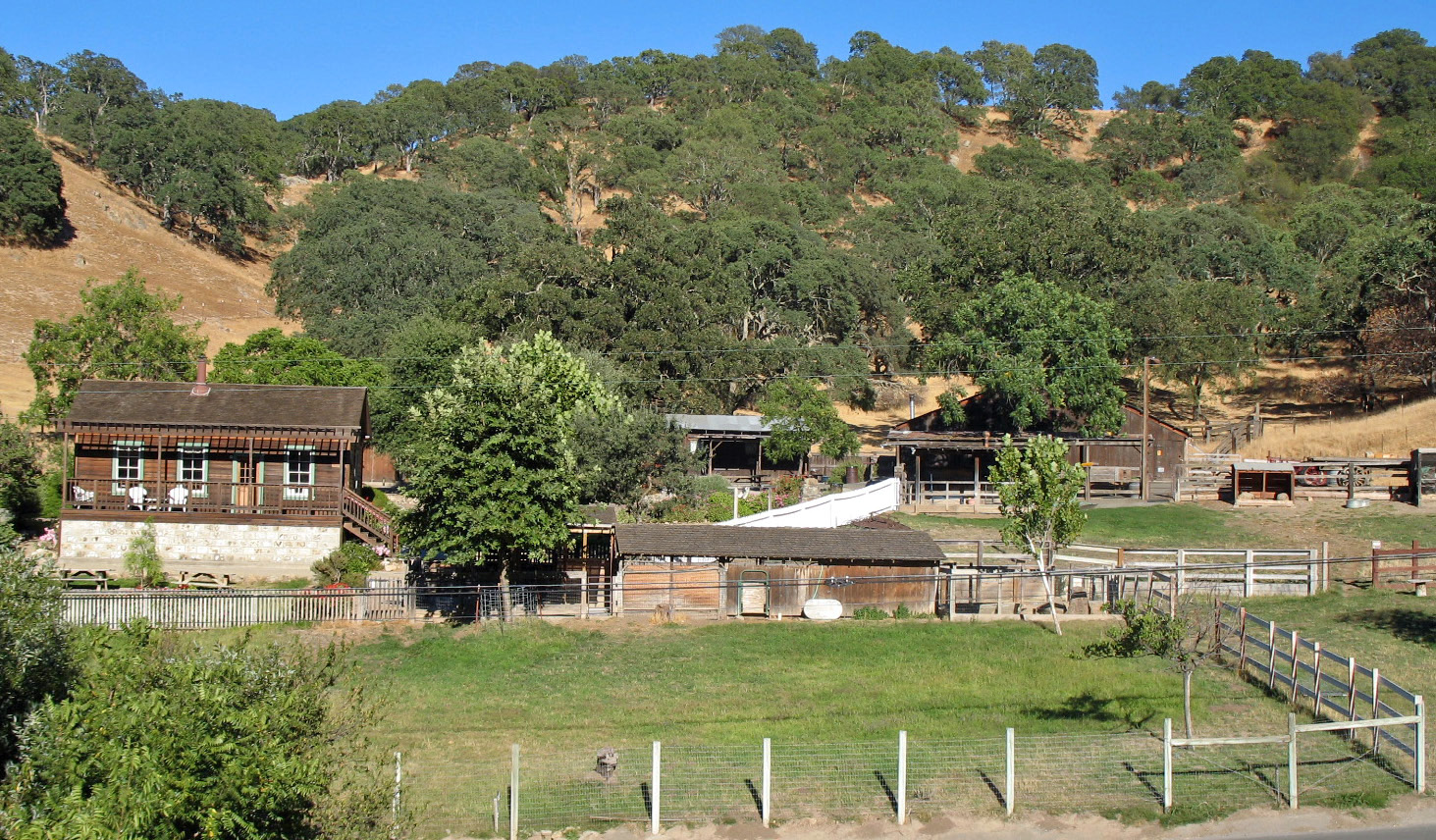 Registered Historic Places in Contra Costa County, California. Old Borges Ranch, 1035 Castle Rock Rd, Walnut Creek, California, USA. Photographed 2008-08-10 from above the parking lot on the west side of Old Borges Ranch Rd.